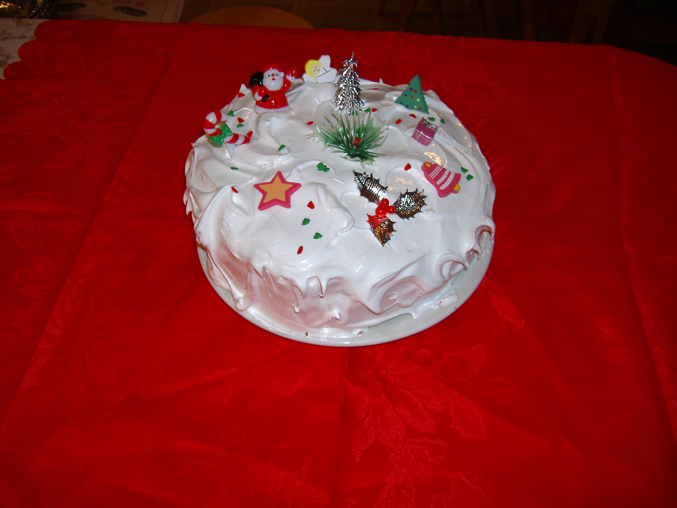 Red Velvet Cake :D